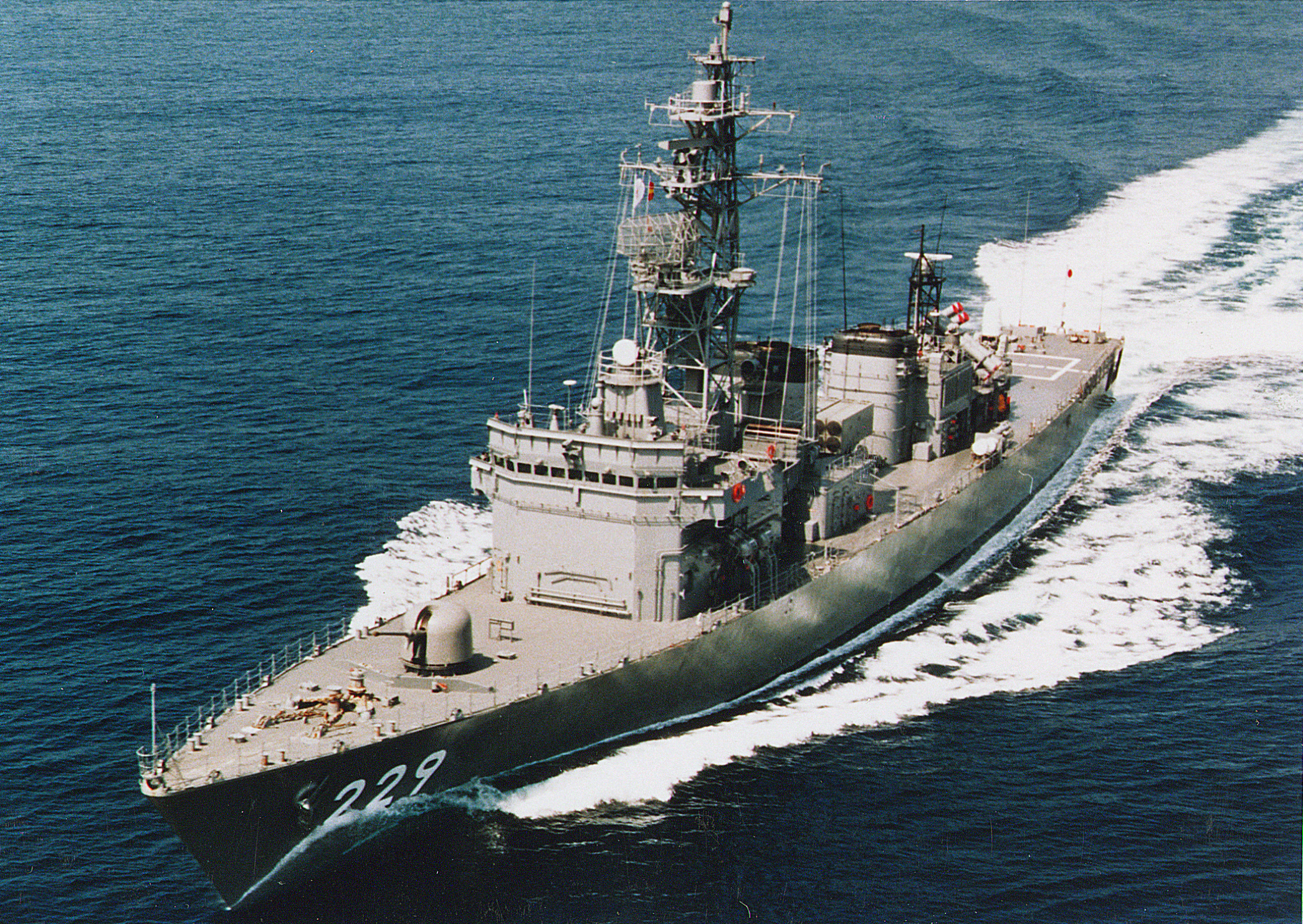 JS Abukuma (DE-229)